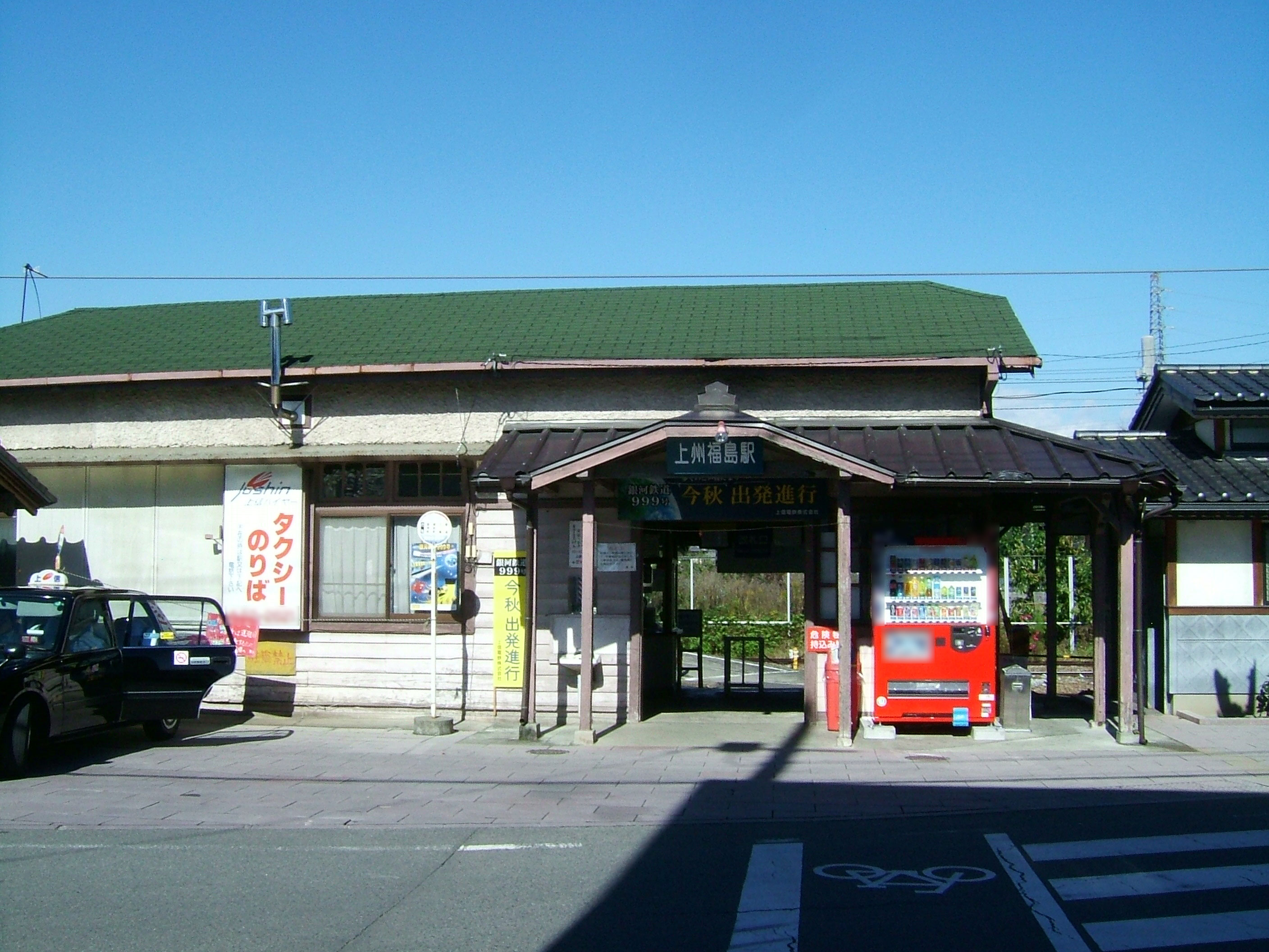 Jōshū-Fukushima Station building (Jōshin Dentetsu Jōshin Line)